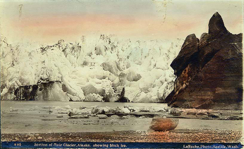 Subjects (LCTGM): Glaciers--Alaska Subjects (LCSH): Muir Glacier (Alaska)